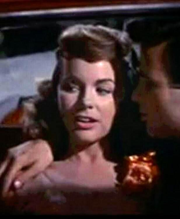 Betty Anderson